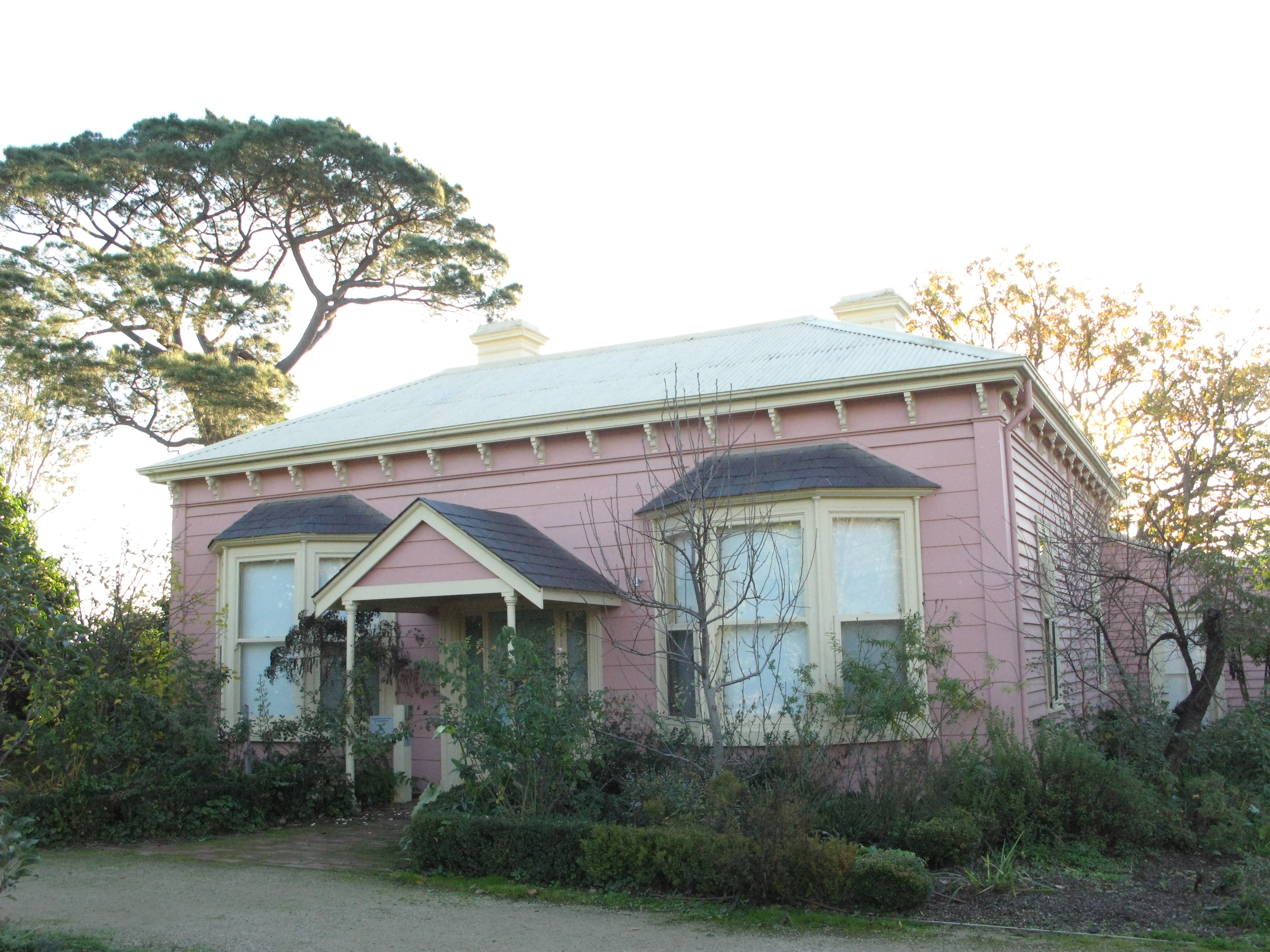 Heide I, viewed from the front gardens, in the Heide Museum of Modern Art in Bulleen, Melbourne, Australia. Photo taken by Nick carson in June 2009.